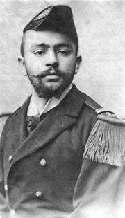 Photograph of Victor Vlad Delamarina (1870-1896), Romanian poet